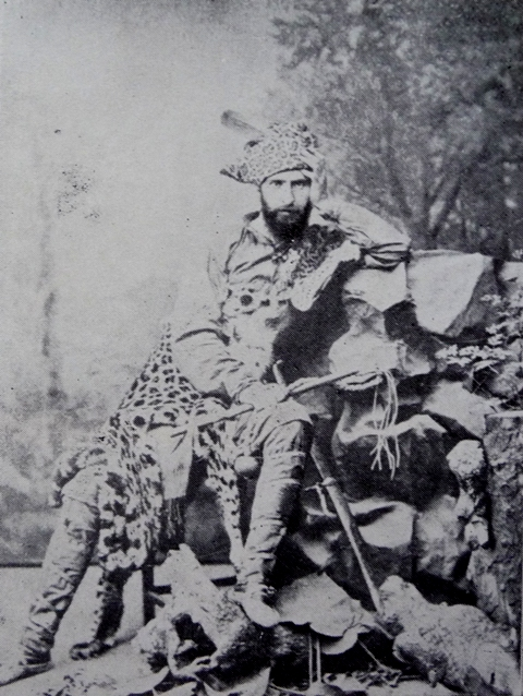 The photography of Giorgi Shervashidze as prototype of Tariel